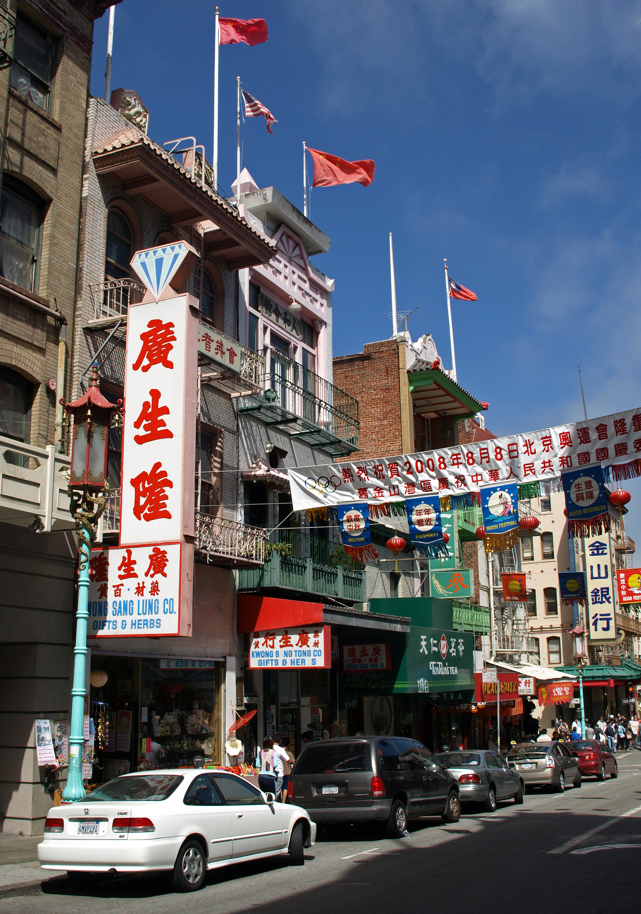 Chinatown, San Francisco, California (United States)